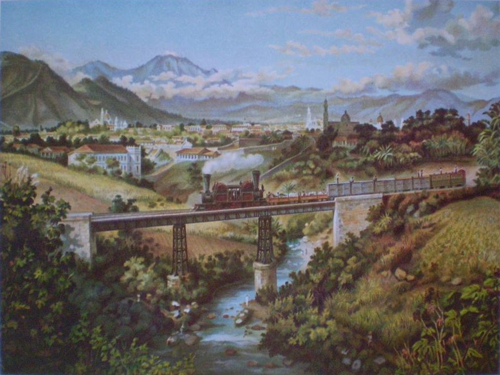 .Picture from the "Album of the Mexican Railway". Pictues by Casimiro Castro. Text by: Antonio Garcia Cubas. Published by Víctor Debray. Year: 1877 Bilanguage edition english and spanish.